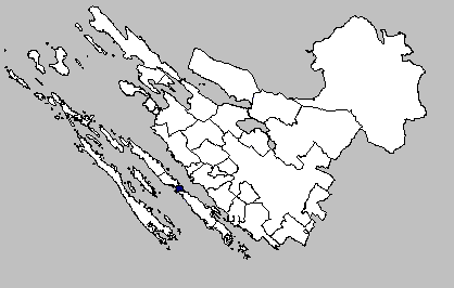 Self-made map of the Kukljica municipality within the Zadar County.